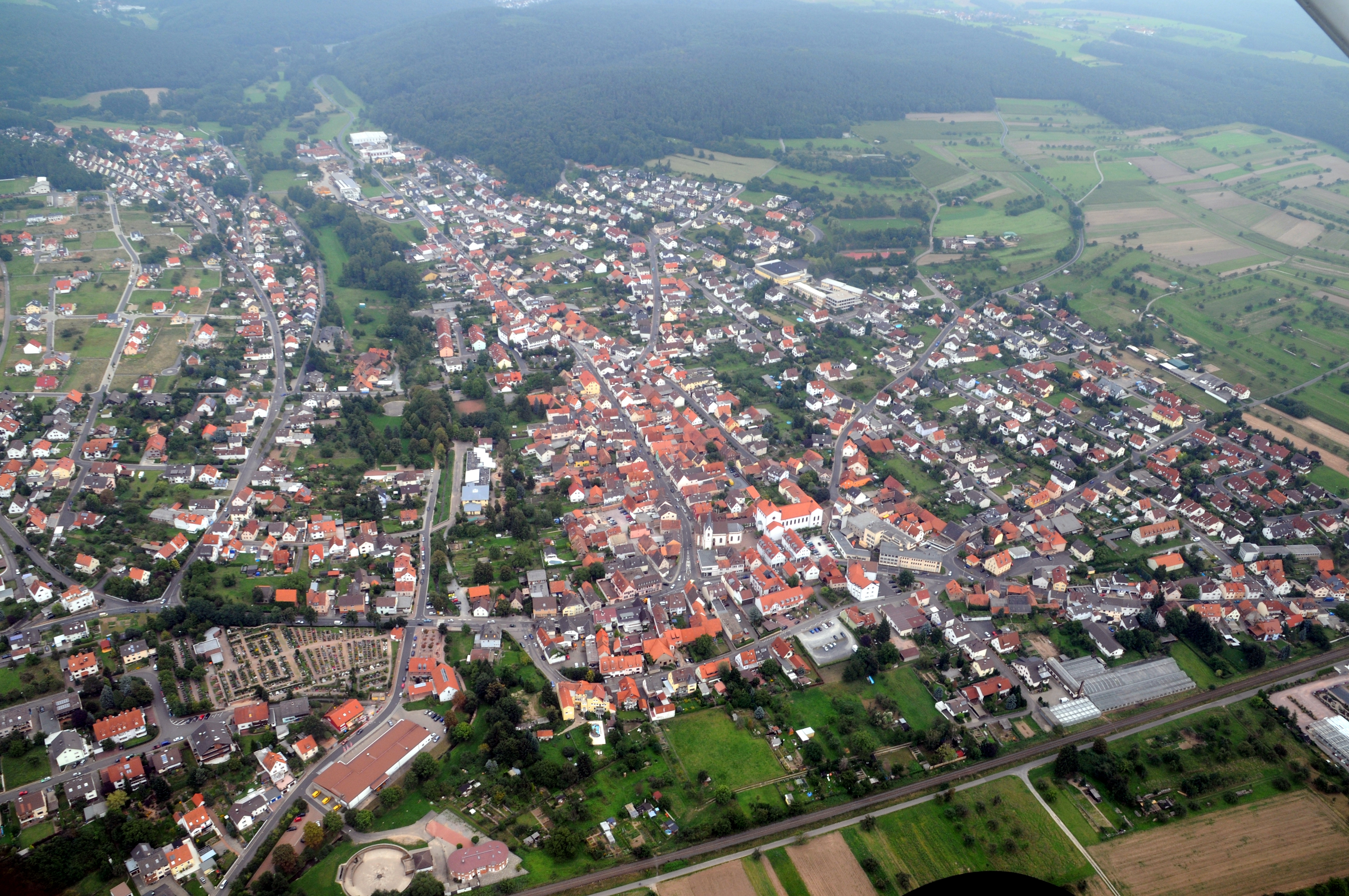 Sulzbach am Main, Bavaria, Germany, aerial photograph